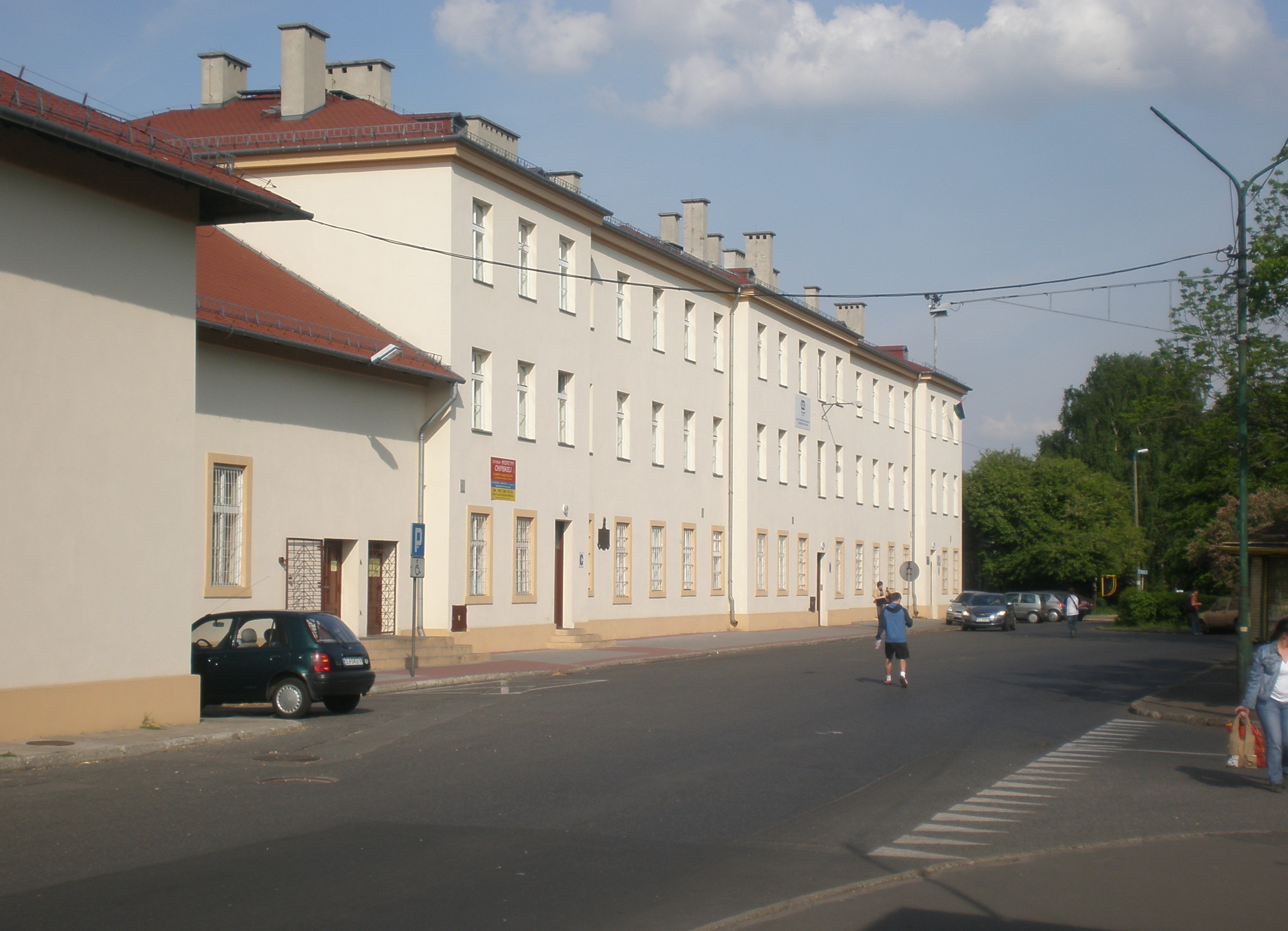 Jaworzno Szczakowa train station in Jaworzno